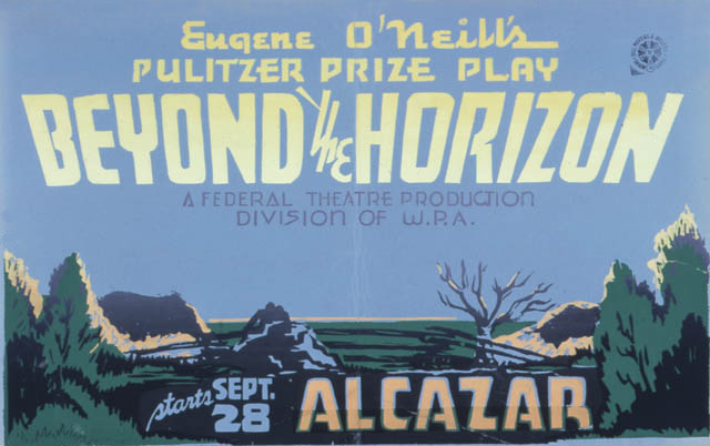 Poster for the presentation of Eugene O'Neill's Beyond the Horizon at the Alcazar Theatre, San Francisco